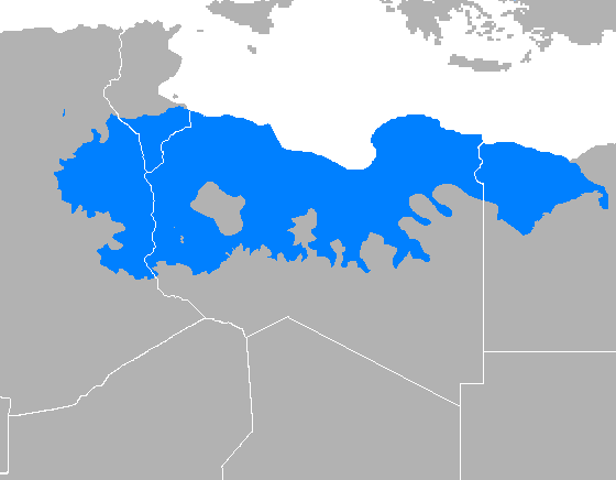 Libyan arab